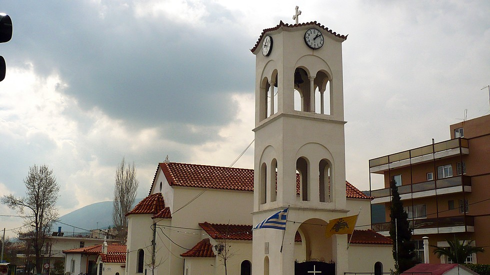 The above picture depicts the Virgin Maria Assumption Church at Gerakas.